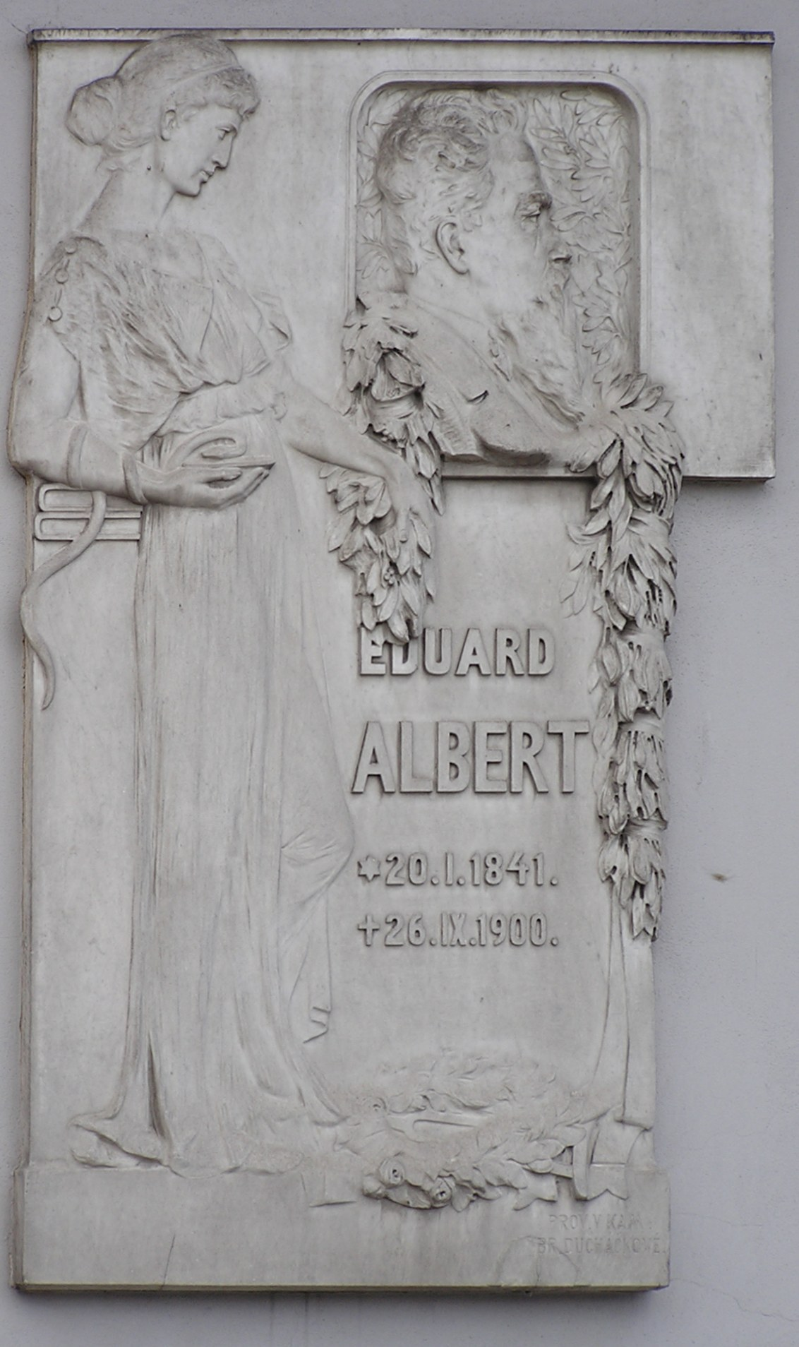 Eduard Albert commemorative plague on the family house in Žamberk (Czechia)